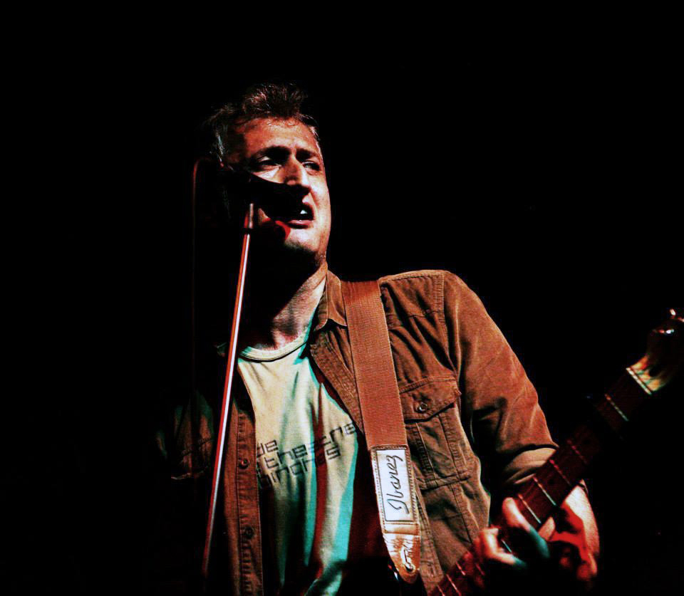 Turkish rock musician Tarkan Çakır rock performance in Istanbul.